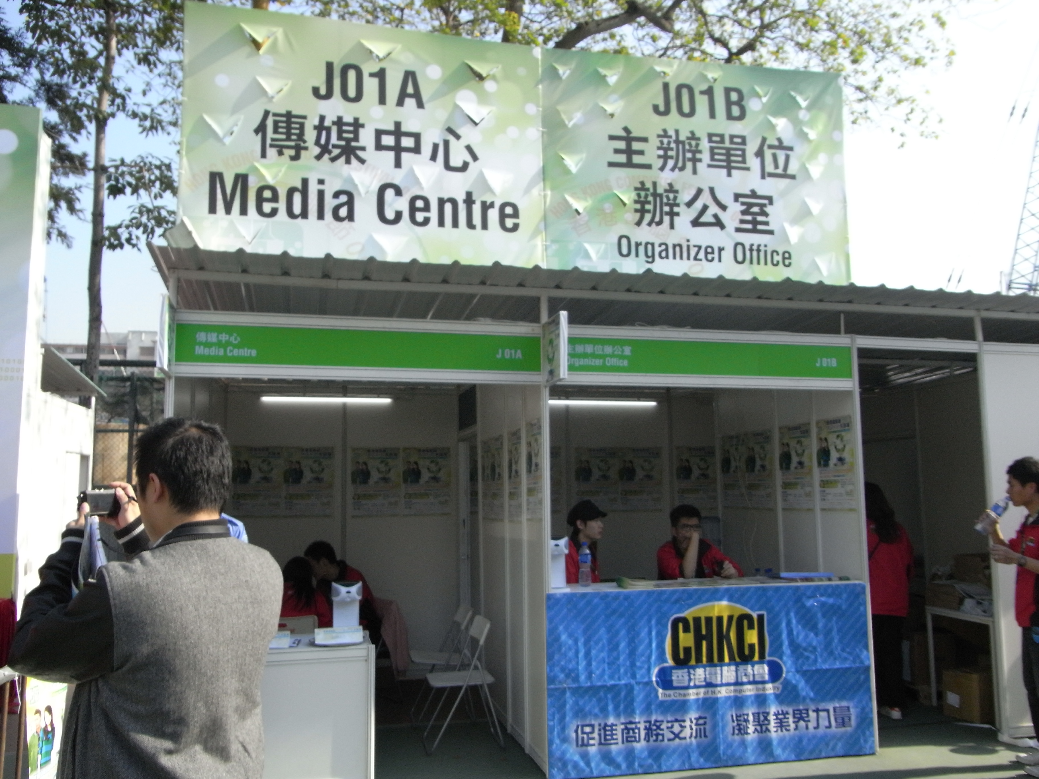 深水埗區 2010年香港電腦節 辦公室